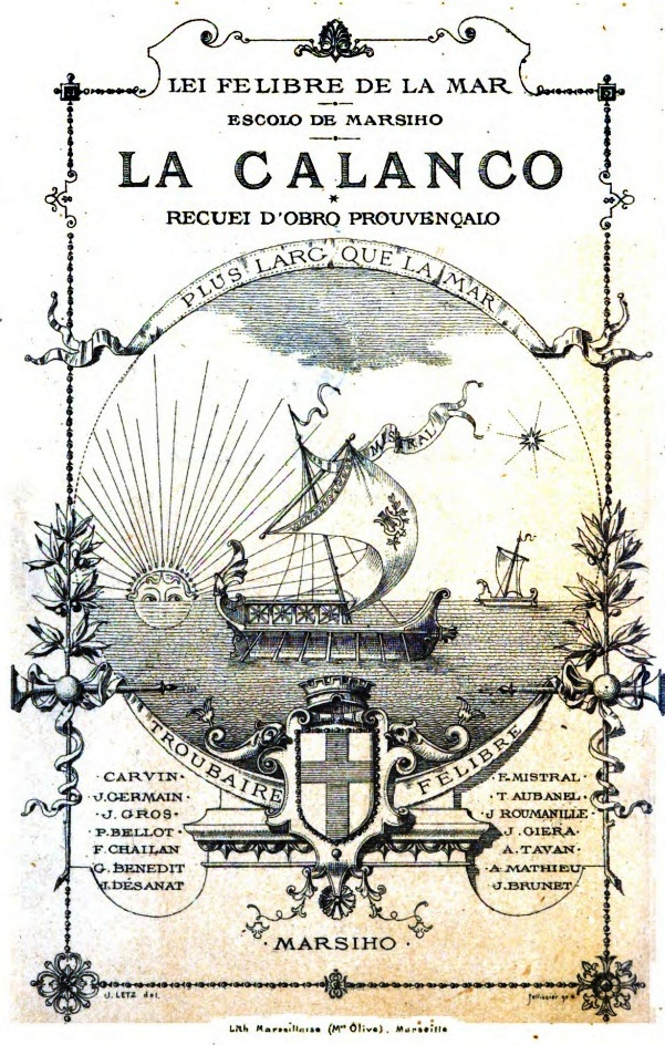 Coverpage of the Occitan literary review La Calanca